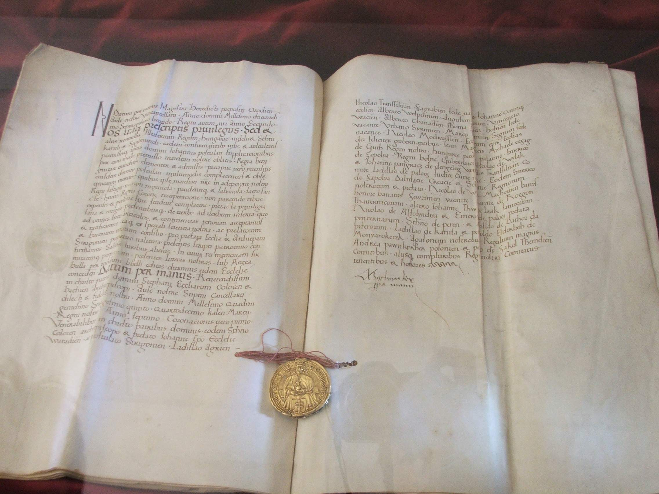 Charter by King Mátyás I. of Hungary in Esztergom